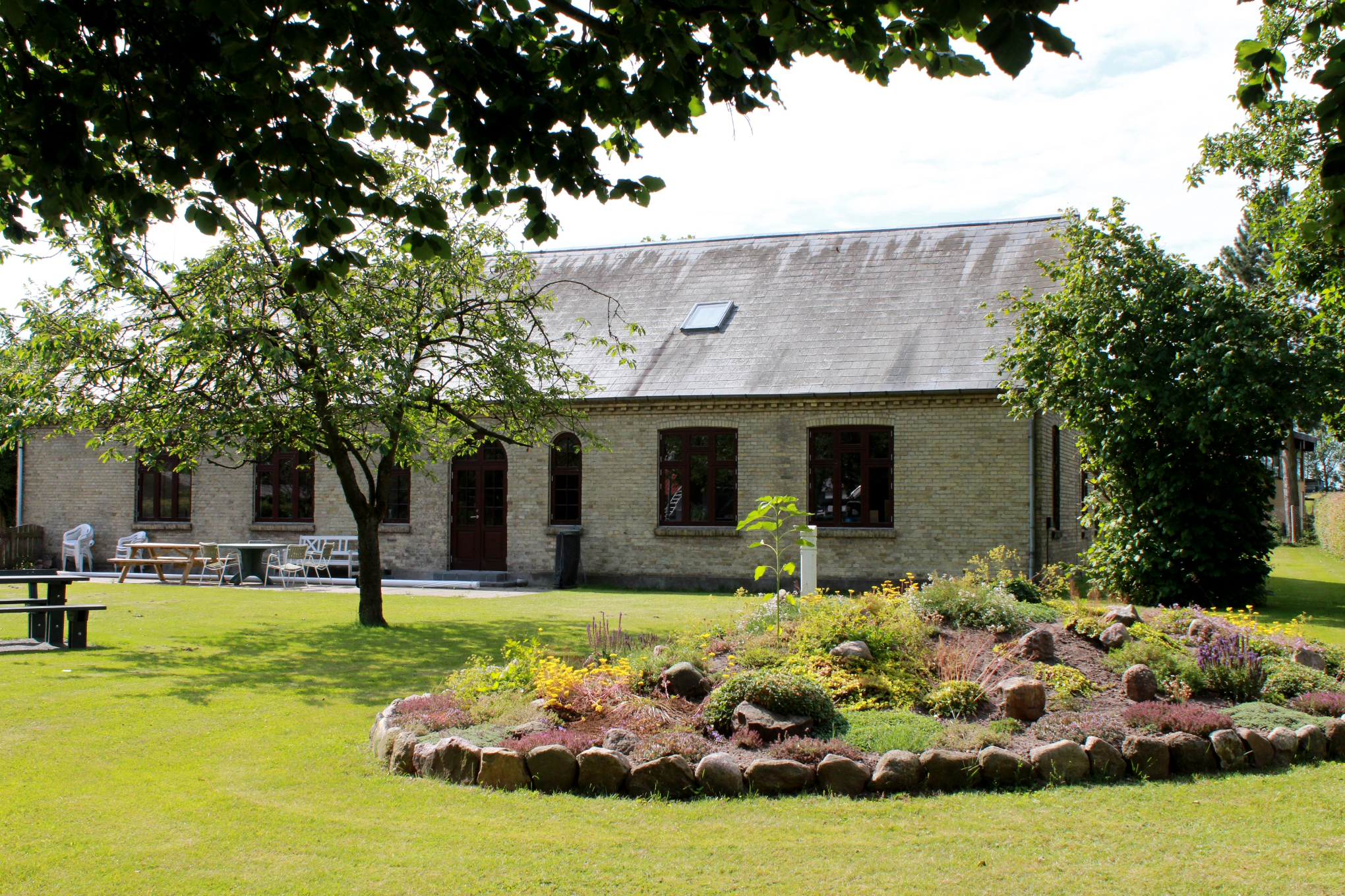 The former school house at Birkende, Kertemimde Kommune on Funen, Denmark.